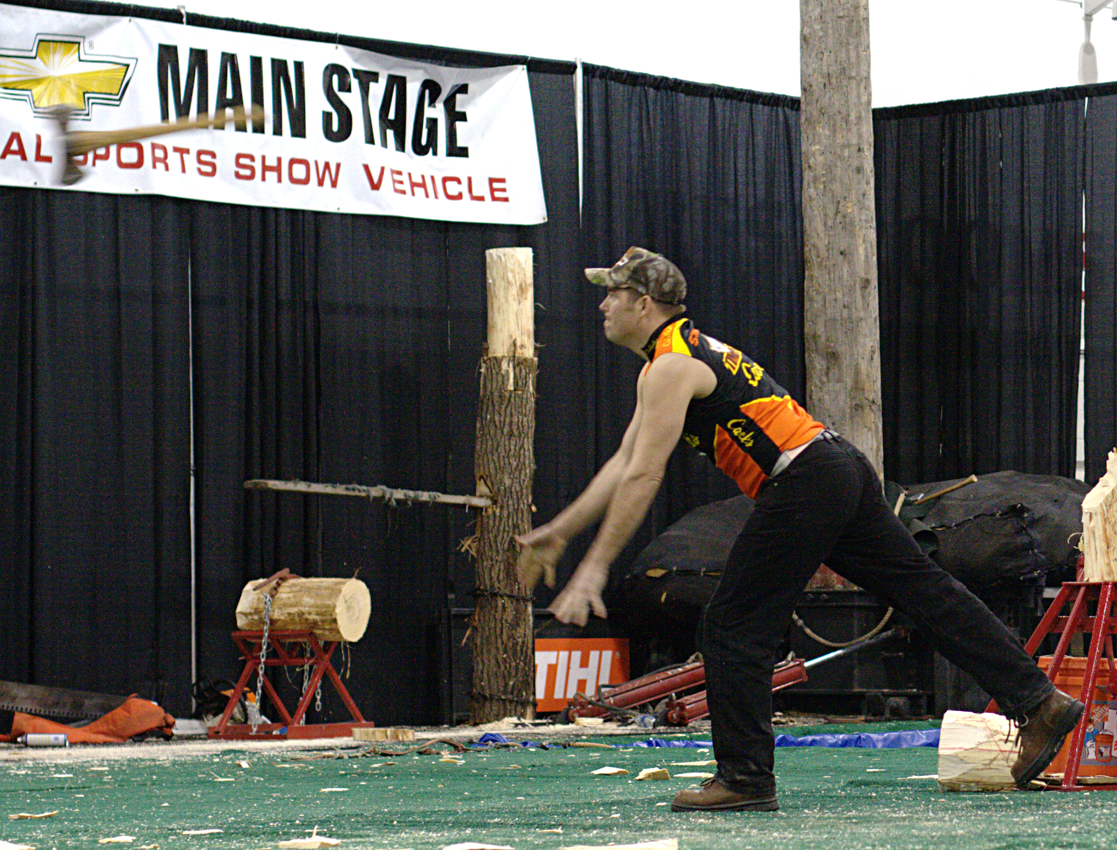 Flickr tags: Milwaukee, USA, journalsentinalsportshow, Wisconsin.